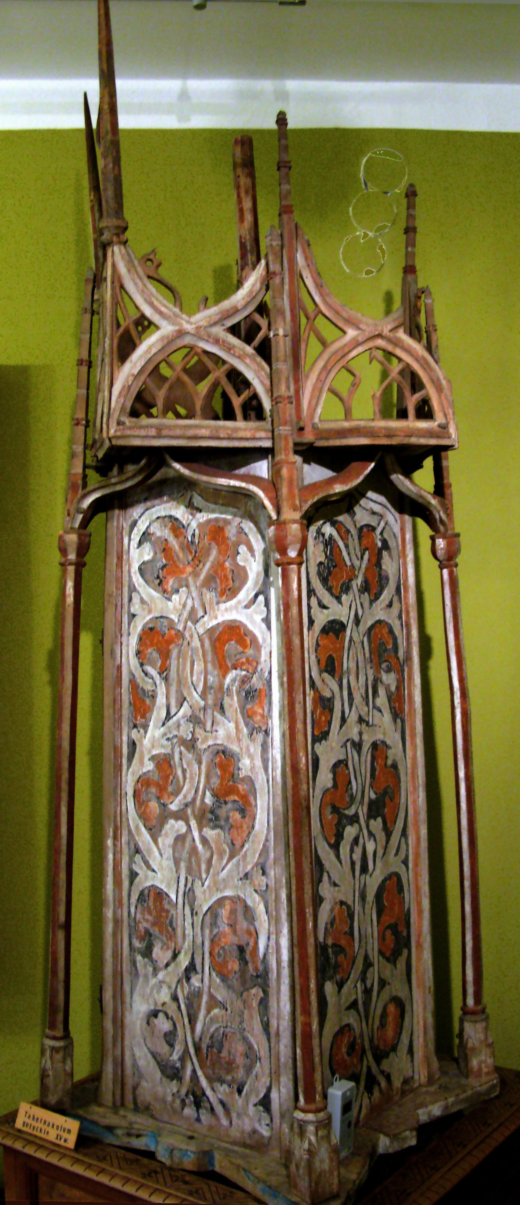 Tabernacle from Skalnik (XVth Century)